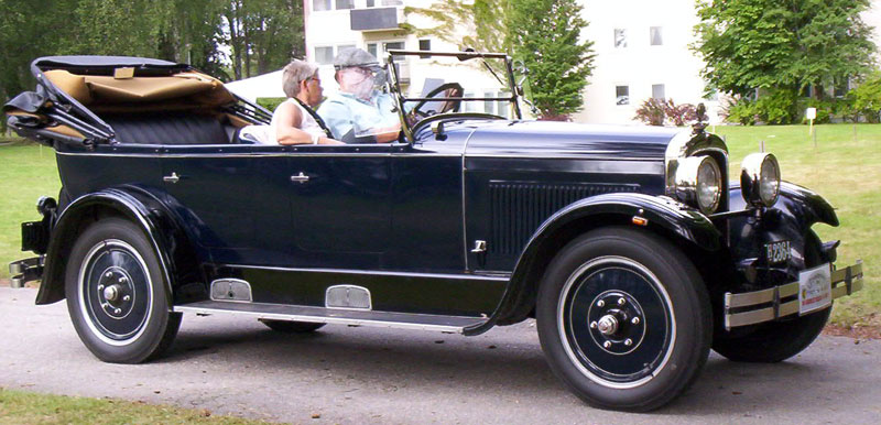 Nash Touring 1925